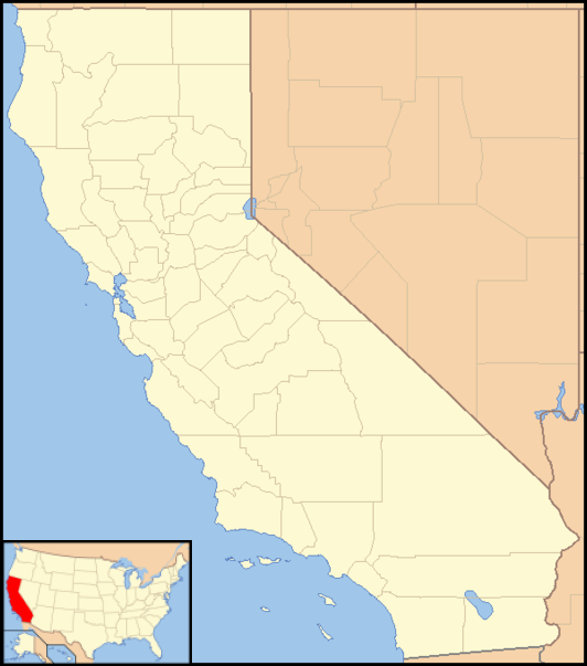 Locator Map of California, United States